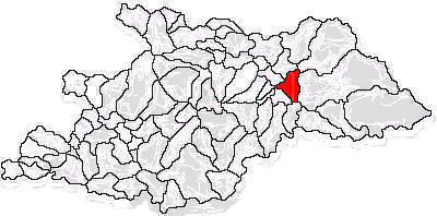 Location of Vişeu de Jos in Maramureş County